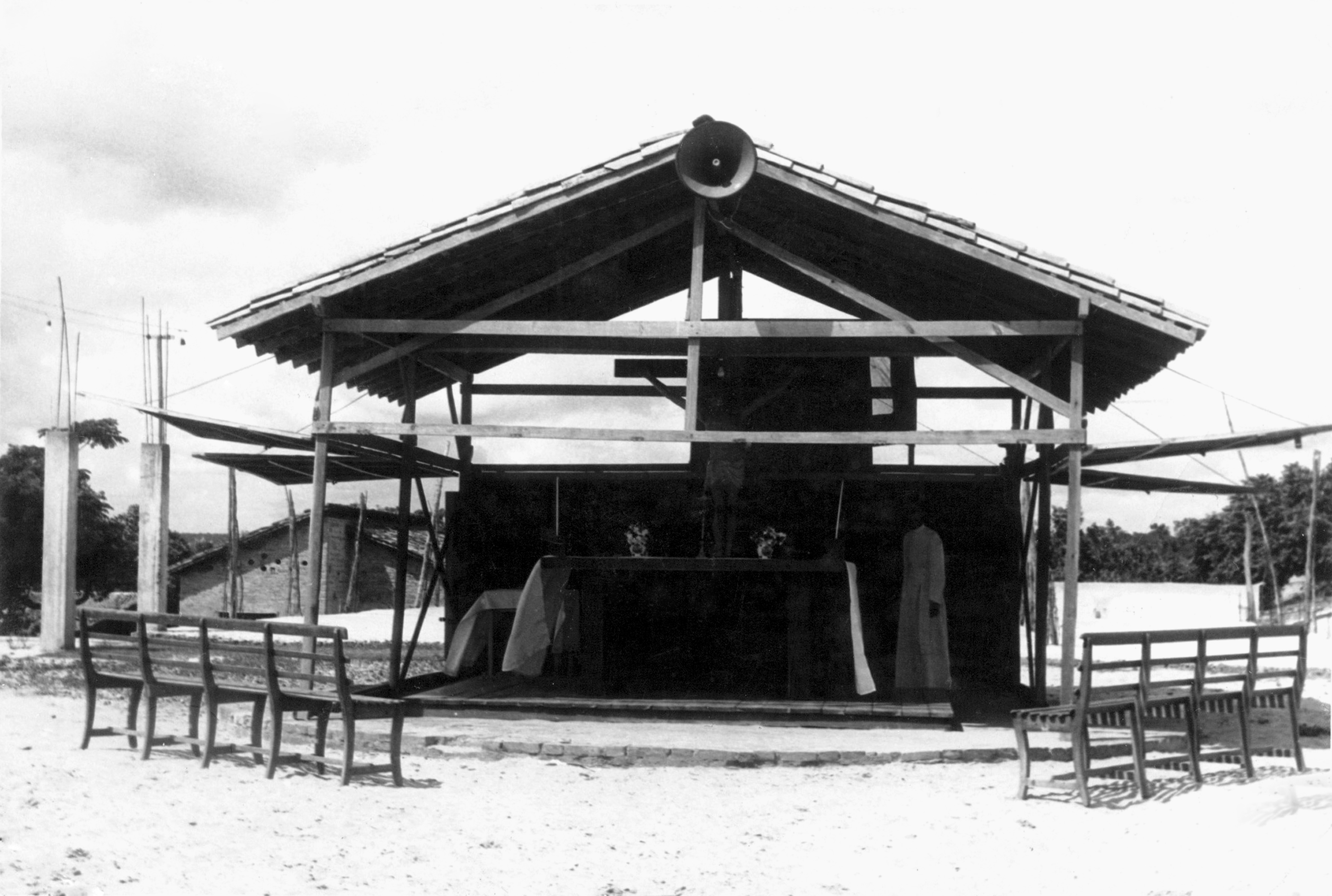 Igreja Nossa senhora de Lourdes